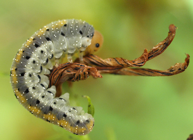 Tenthredo amoena sawfly larva on Klamath weed (Hypericum perforatum). Seen in my garden in Denmark. Identification confirmed by John Grearson. Bladhvepselarve på Prikbladet Perikon.